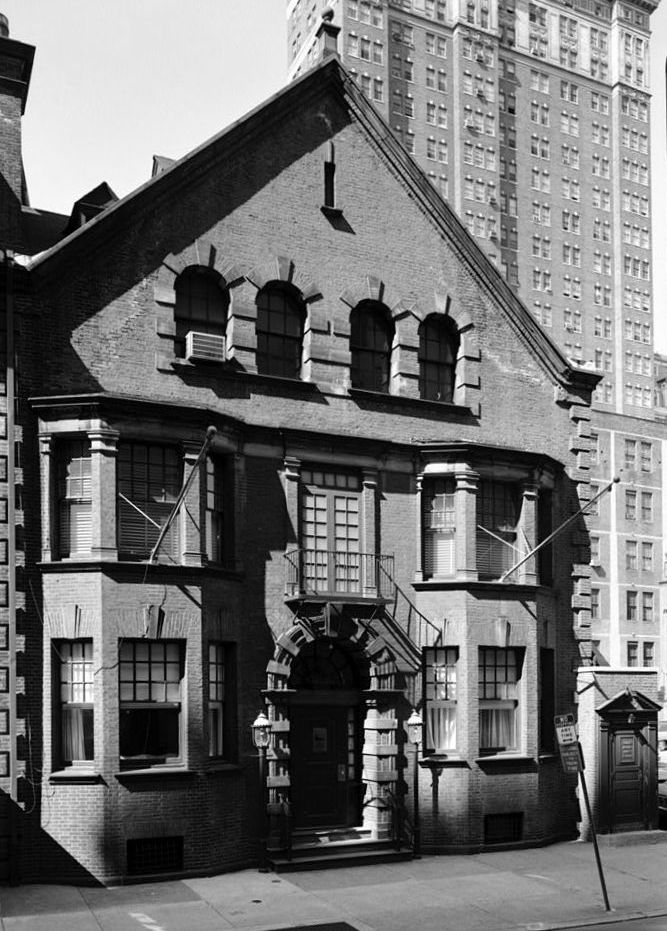 Dr. Joseph Leidy, Jr. House, 1319 Locust St., Philadelphia, Pennsylvania (1894), Wilson Eyre, architect. [sold to the Poor Richard Club in 1925, and transferred to private ownership in 1979]